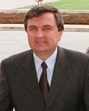 Albanian Prime Minister Ilir Meta is escorted through an honor cordon and into the Pentagon on Aug. 24, 2000.